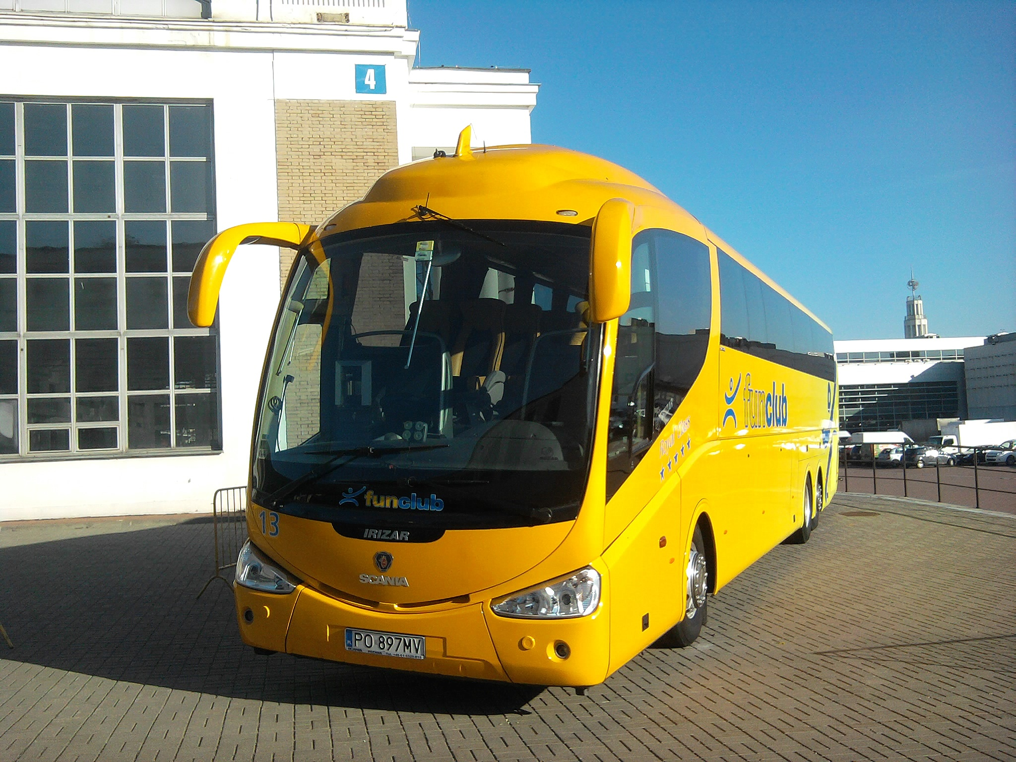 Irizar PB 6x2 coach (reg. PO 897MV) with Scania chassis on Poznań International Fair, Poznań, Poland. Fun Club from Poznań operator.